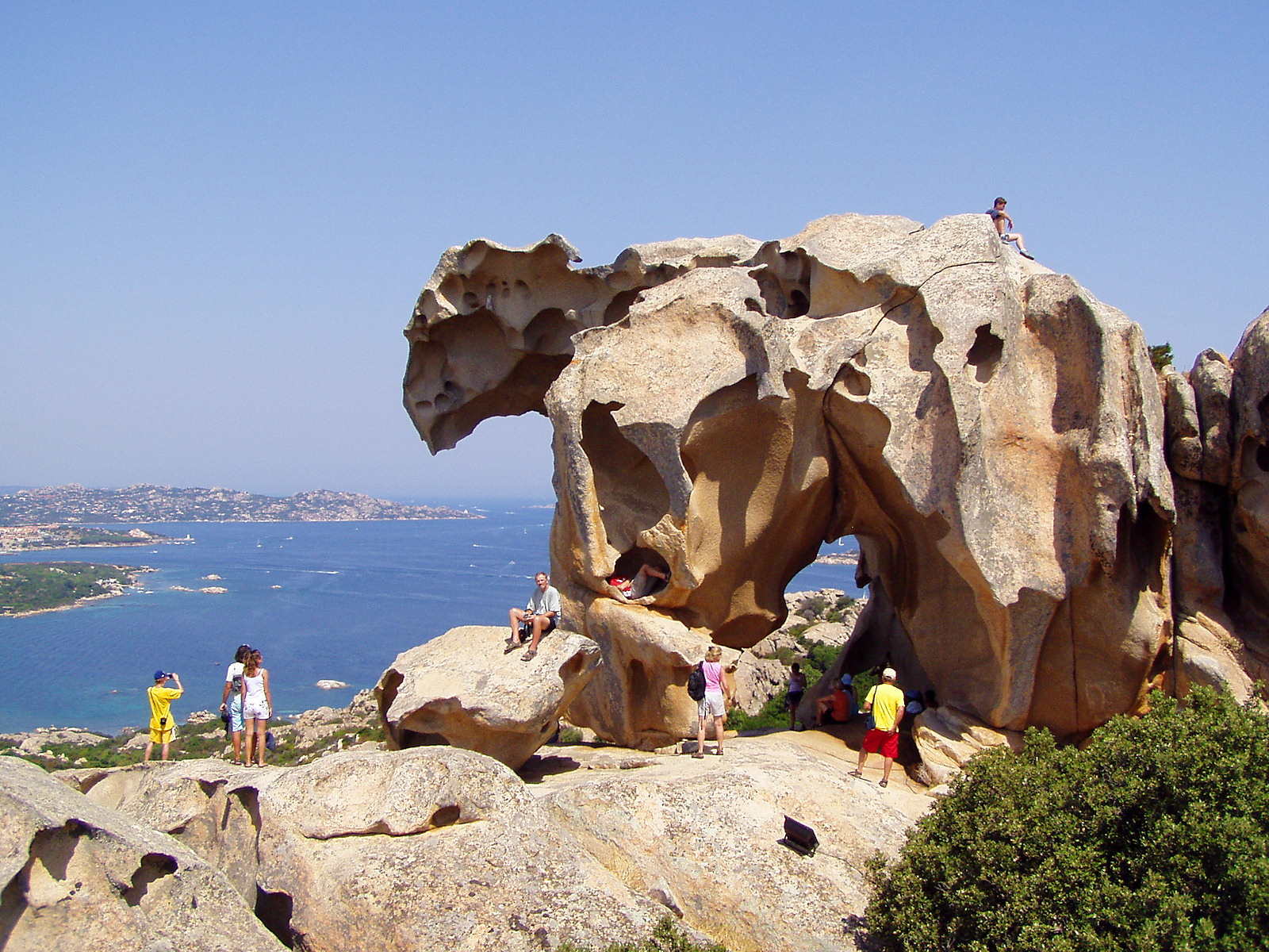 Tourists at Capo d'Orso rock, Palau, Sardinia, Italy.